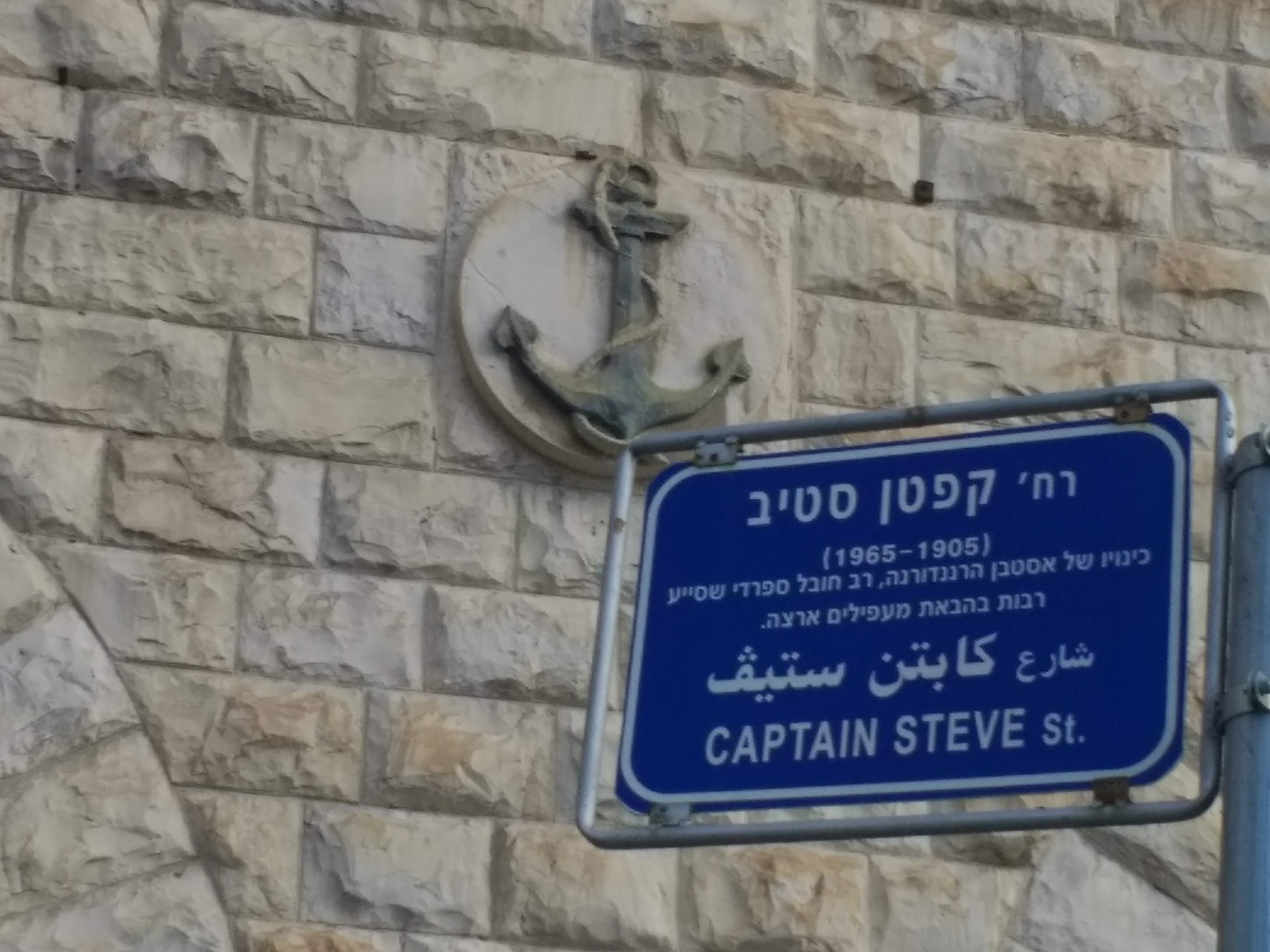 Detail of Mariner's House, and the street sign about Captain Steve